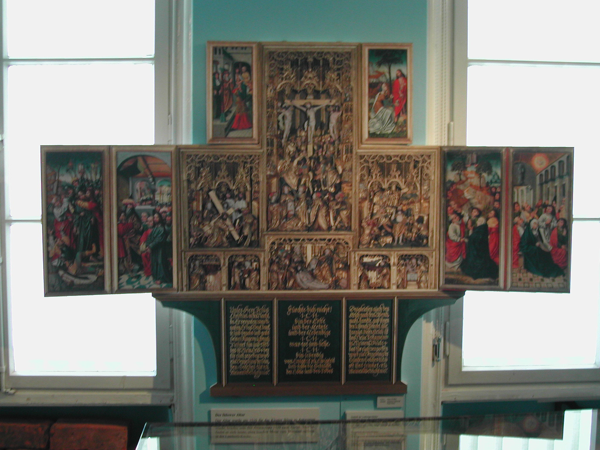 monastery Ihlow altar opened